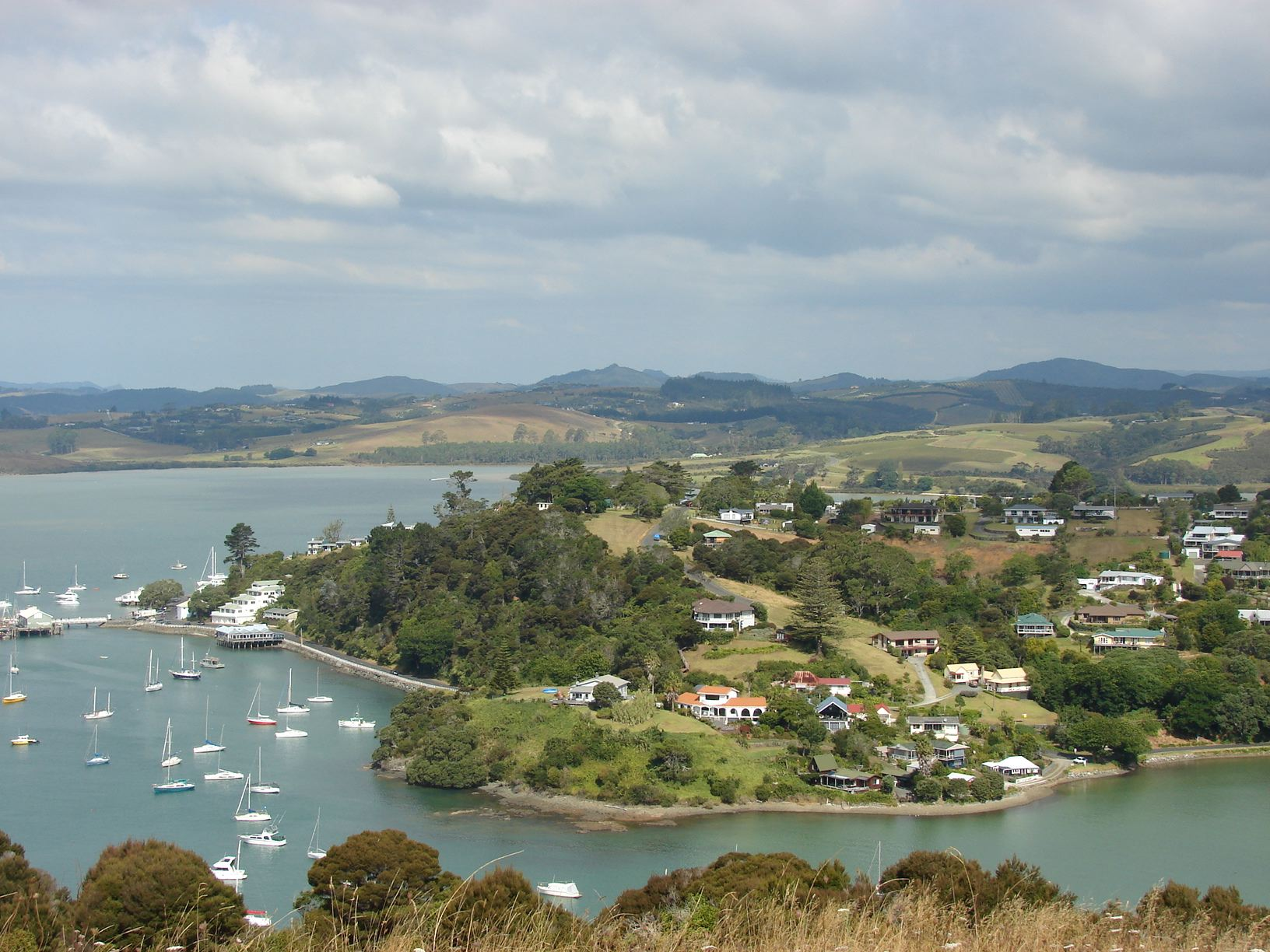 The Penney Cottage seen from above, and the Mangonui Harbour